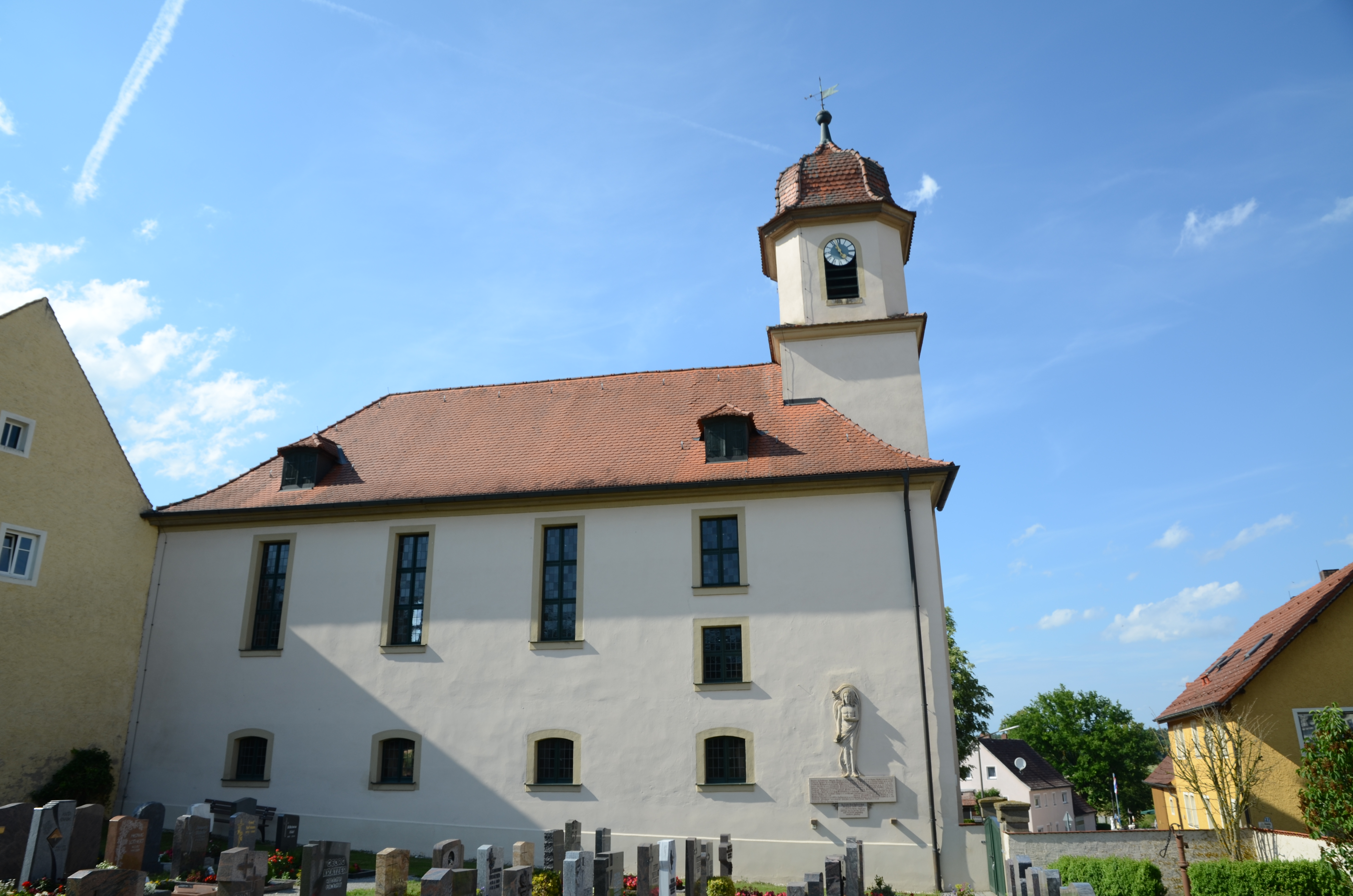 Thann evang.-luth. Kirche St. Peter